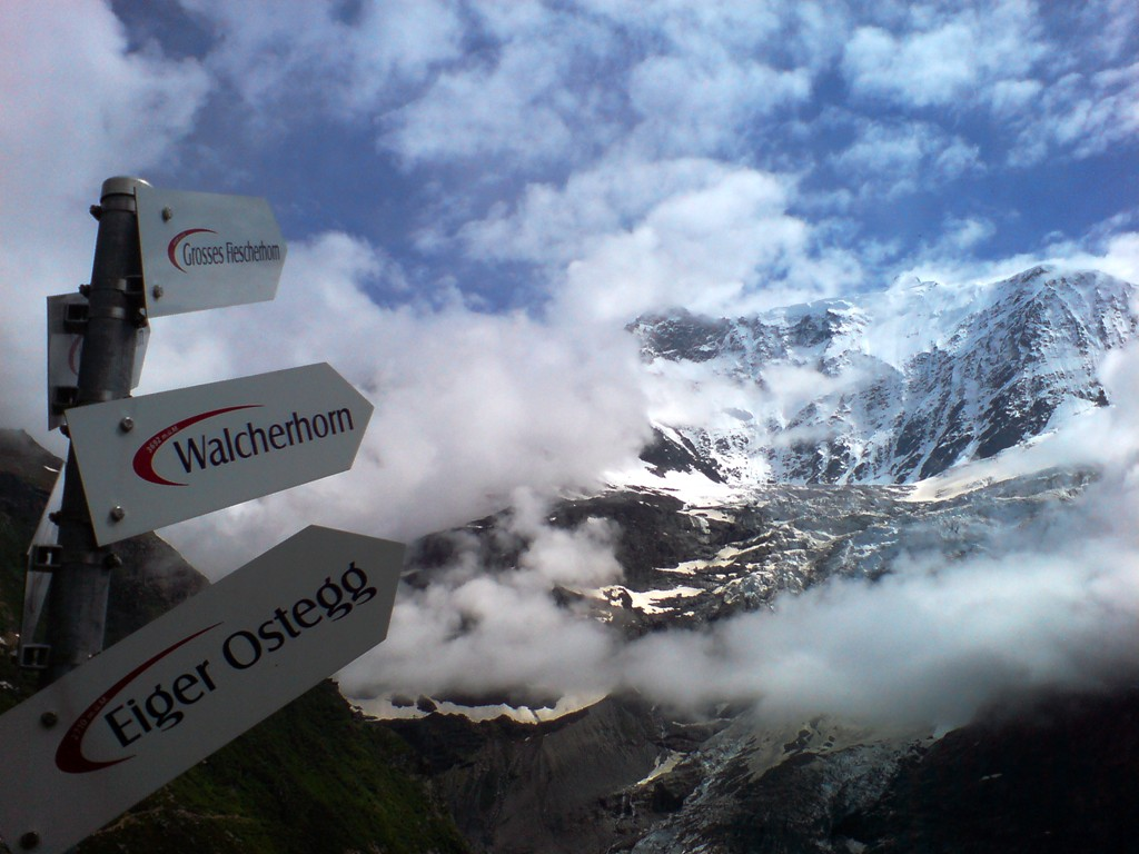 Fiecherhorn north wall seen from Bäregg, near Grindelwald